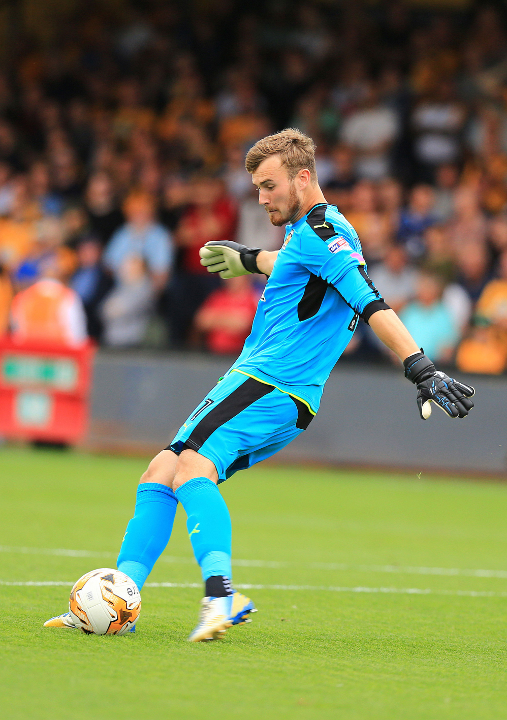 Will Norris playing for Cambridge United against Luton Town in 2016